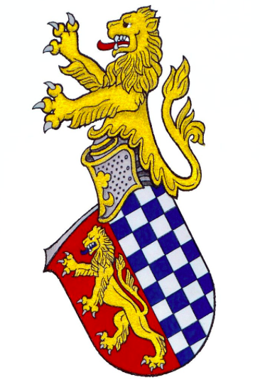 Breuberg Coat of arms around 1180